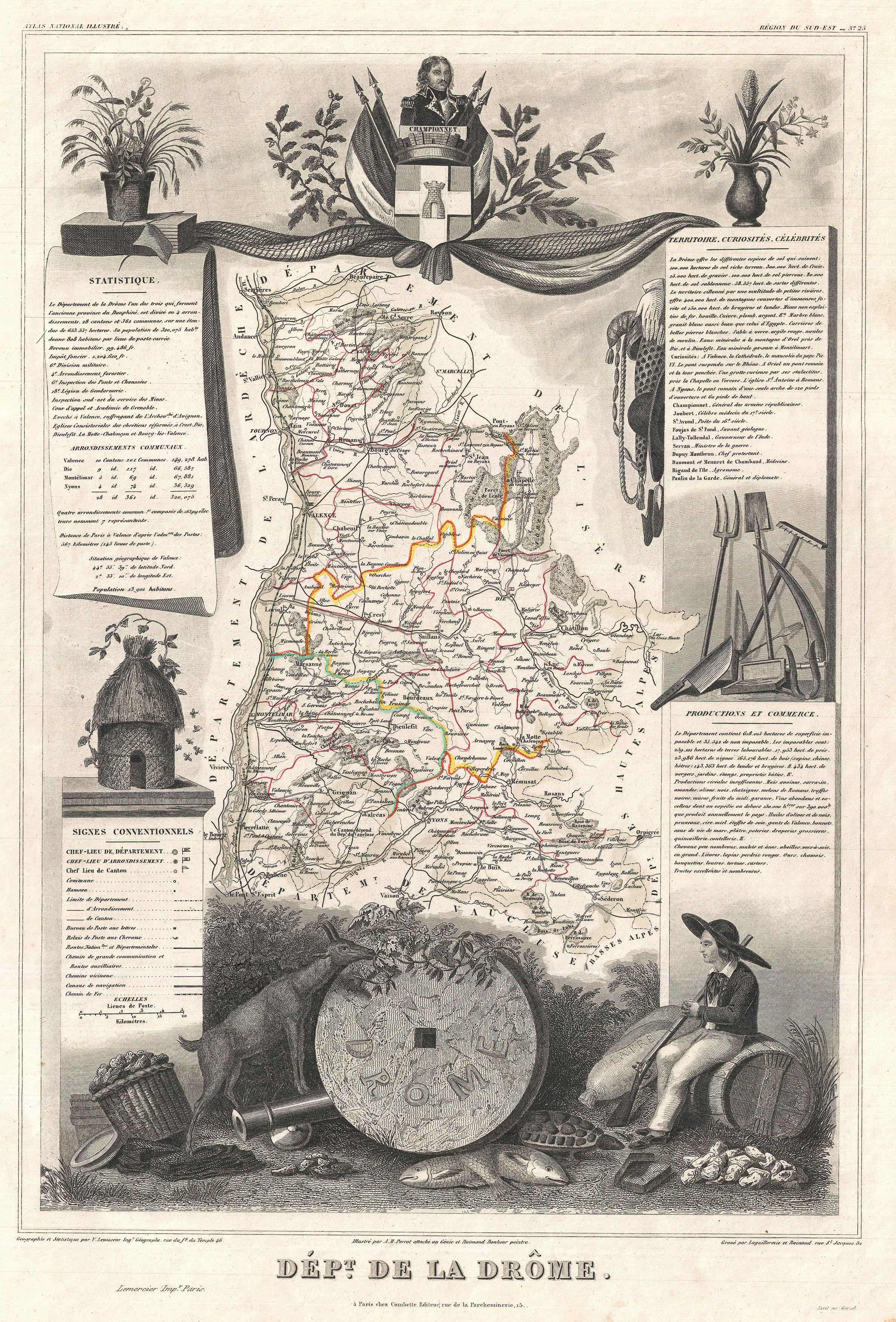 This is a fascinating 1852 map of the French department of Drome, France. This area is known for its production of Picodon, a spicy goats-milk cheese. The whole is surrounded by elaborate decorative engravings designed to illustrate both the natural beauty and trade richness of the land. There is a short textual history of the regions depicted on both the left and right sides of the map. Published by V. Levasseur in the 1852 edition of his Atlas National de la France Illustree.